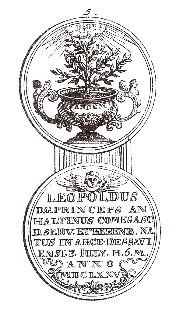 Medal with orange tree. On the occasion of birth of Leopold, Prince of Anhalt-Dessau, 1676. From: Beckmann, Historie des Fürstenthums Anhalt. Tome 1, part 2, tableau 3, number 5, Zerbst, 1710